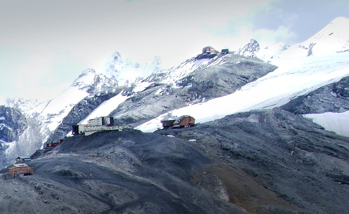 Monte Livrio Picture taken by user Idefix august 2006